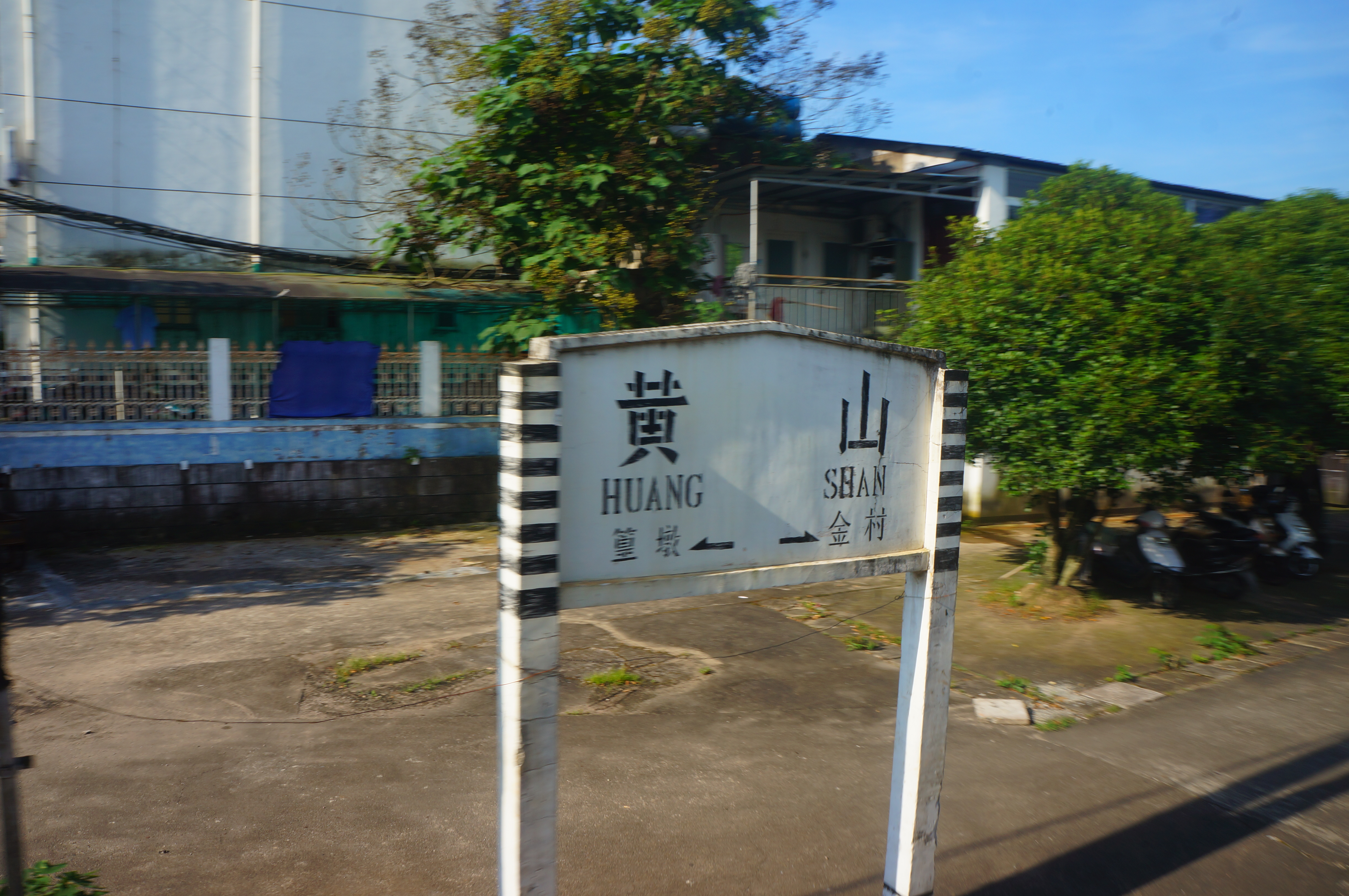 201806 Nameboard of Huangshan Station